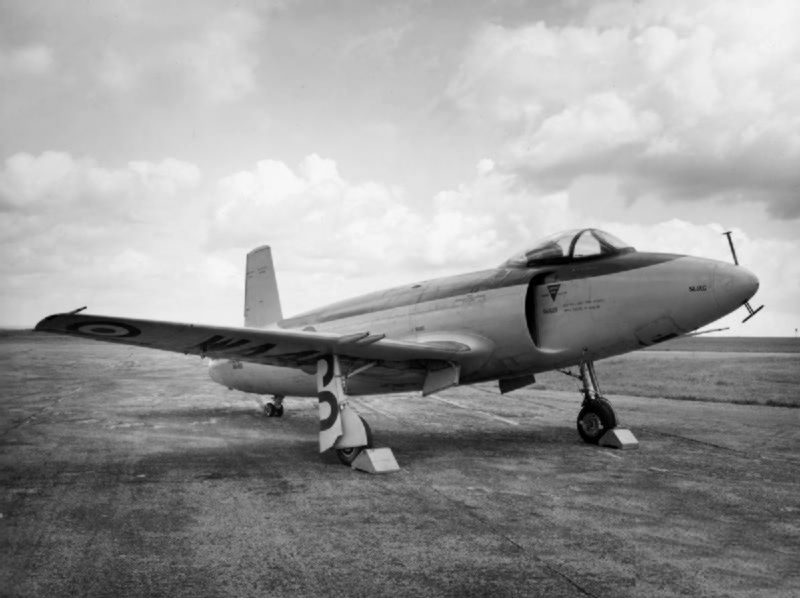 The first production Royal Navy Supermarine Attacker F1 in July 1950.